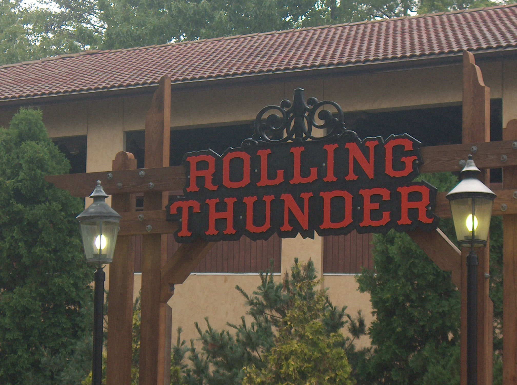 Rolling Thunder at Six Flags Great Adventure. Picture taken by myself (harpiesbrother91) on June 22, 2006.